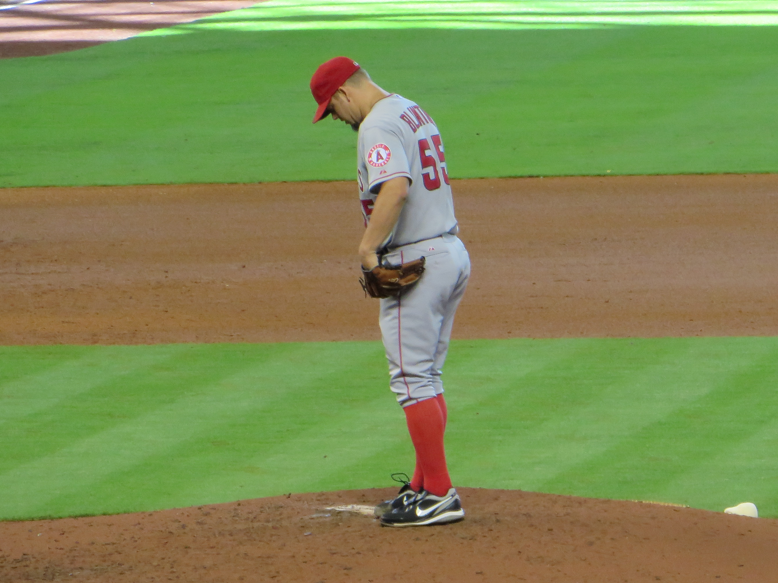 Major League Baseball pitcher Joe Blanton in a game between the Los Angeles Angels of Anaheim and the Houston Astros on June 29, 2013.